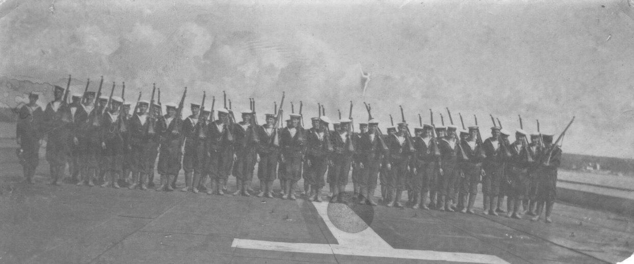 Firing party for dead pilot, deck of HMS Vindictive, Baltic 1919